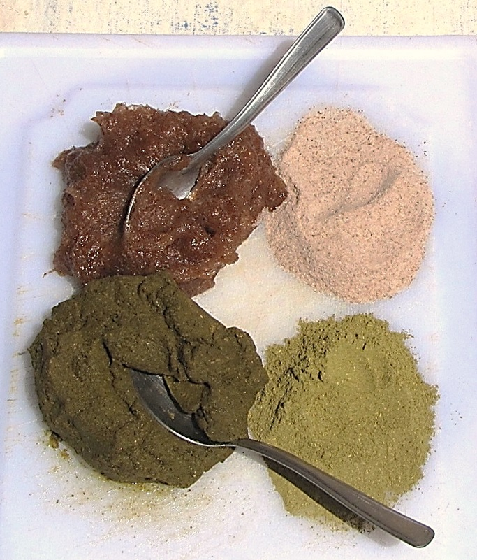 Ground baobab dry green leaf and ground dry sap powders, called 'lalo' in Wolof, as sold in the market for cooking purposes have very different textures when reconstituted with water, from the Adansonia digitata baobab tree in West Africa. The pale pink sap powder when reconstituted turns darker red and has a very sticky, semi-transparent and gelatinous consistency. Both are used in thièré millet couscous recipes, but in different ways - the green leaf powder is often added as-is in dry powder form, while the pinkish sap powder is wetted first, then blended into the millet couscous then steam-cooked. Shown with teaspoons for scale.